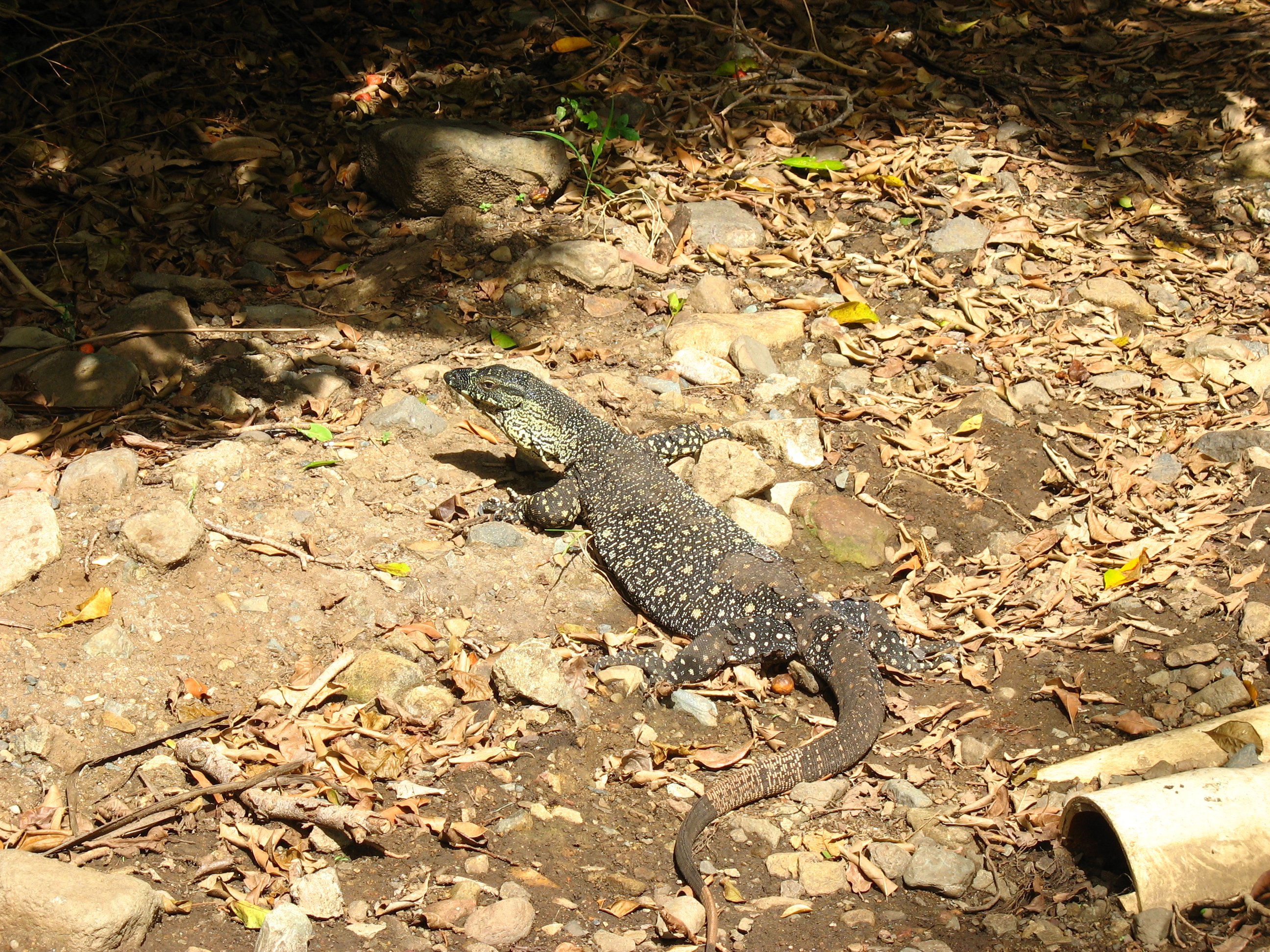 A Lace monitor in Airlie Beach, Queensland, Australia. It is in the process of molting.